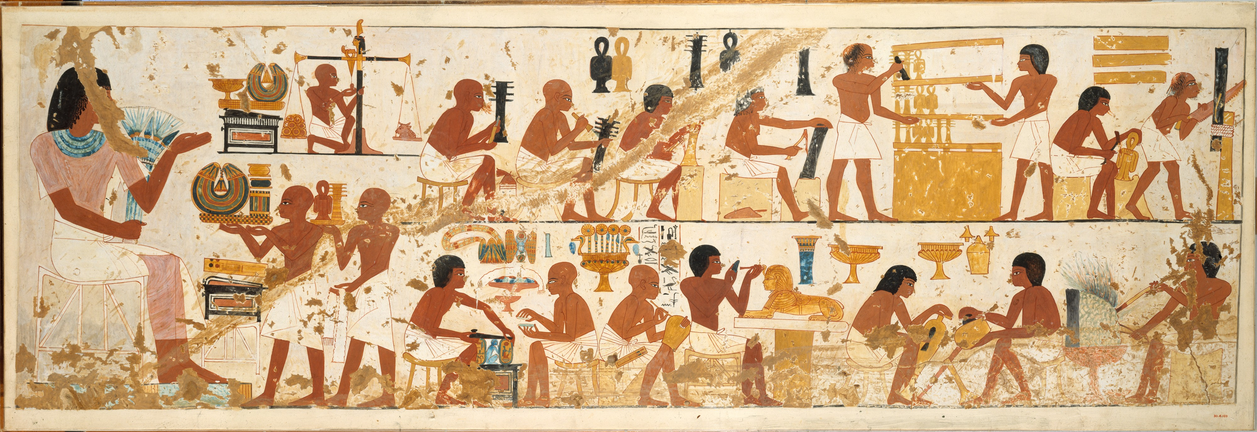 Facsimile, Nebamun (TT 181), Ipuky, jewelers, carpenters, metal workers